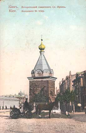 An old photo of St. Irene monument in Kyiv